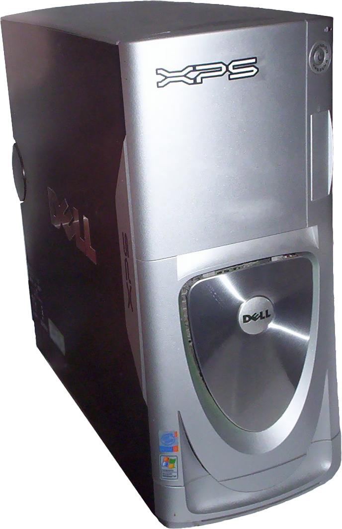 A picture of my Dell XPS Gen 4 on a white background (actually transparent).